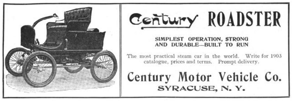 Century Motor Vehicle Co. - Roadster - 1903 model